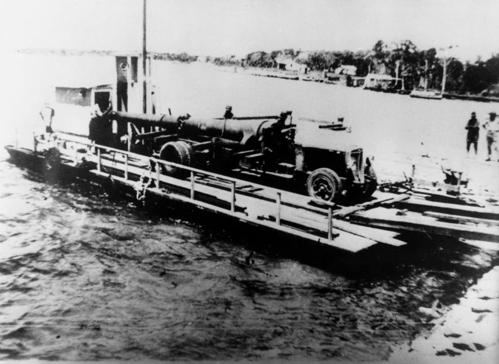 Naval gun being ferried across to Bribie Island, 1939 Naval gun is being ferried from Tripcony Park in Caloundra to Bribie Island for defence purposes in late 1939. (Description supplied with photograph).